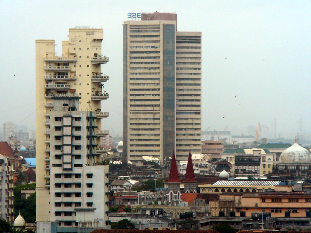 Original caption: Phiroze Jeejeebhoy Towers houses the Bombay Stock Exchange, and it's a wonderful building which could to with just a little cleaning!